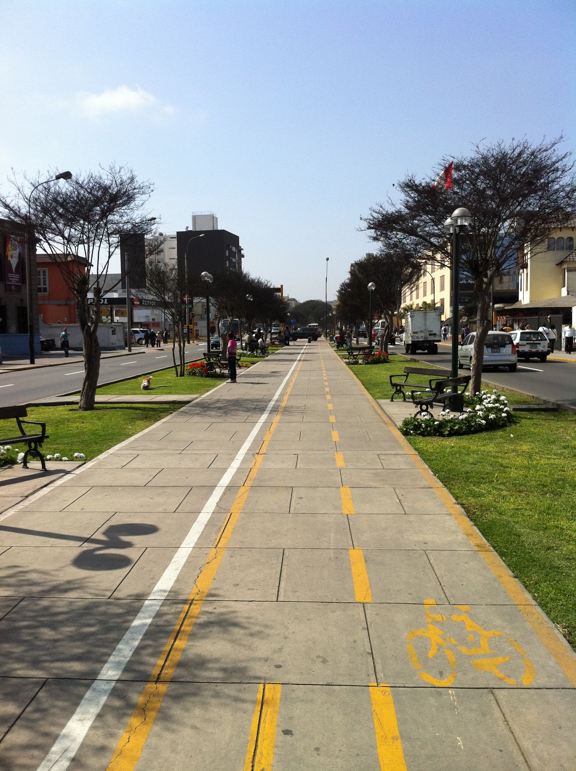 Bike line and pedestrian walk way in Lima.